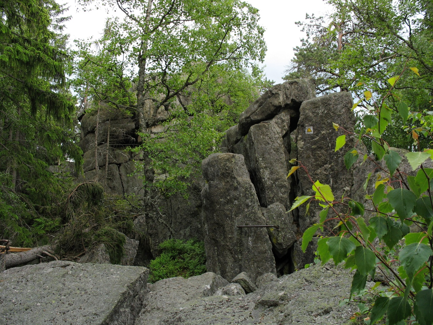 Vyklestilka (887 m), The Šumava Mts. (Czech Republic).